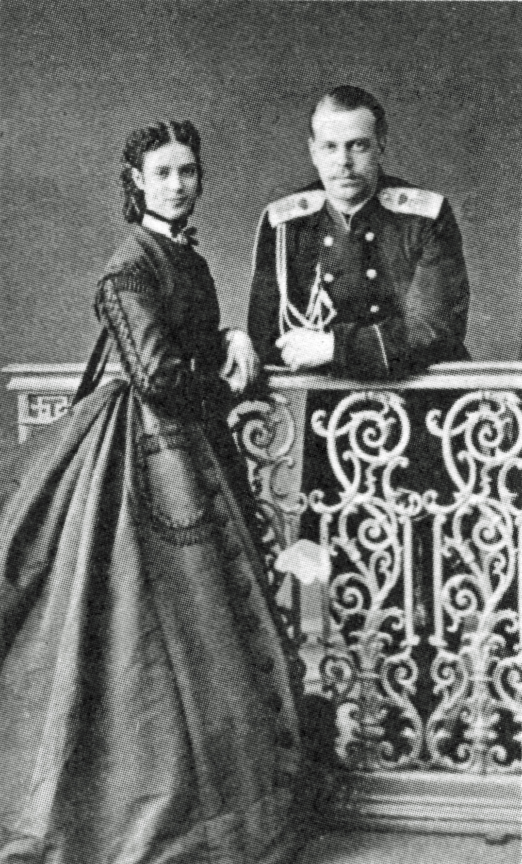 Alexander III of Russia and his wife Maria Fyodorovna (Dagmar of Denmark).